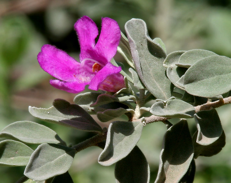 Leucophyllum frutescens - Purple Sage, Texas Sage, Texas Ranger, Silverleaf, Cenizo in Hyderabad, India.